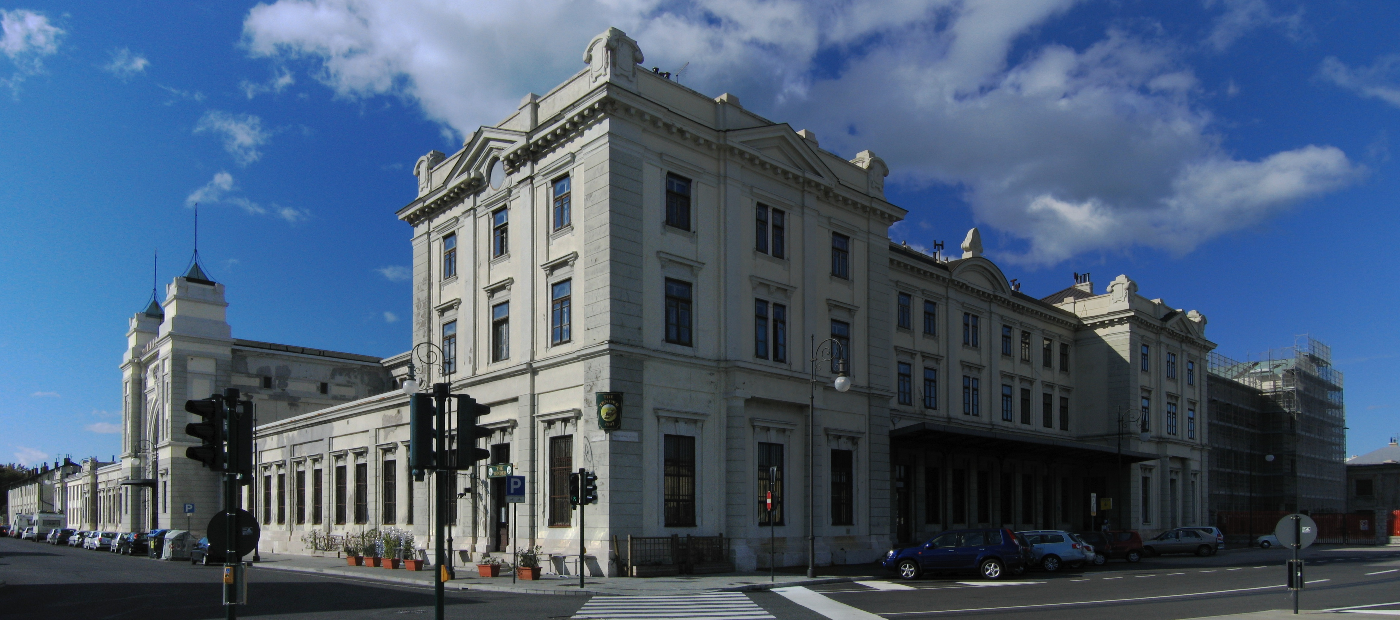 Front view of the Trieste Railway Museum. Stitched image from own photos using Hugin and Enblend.